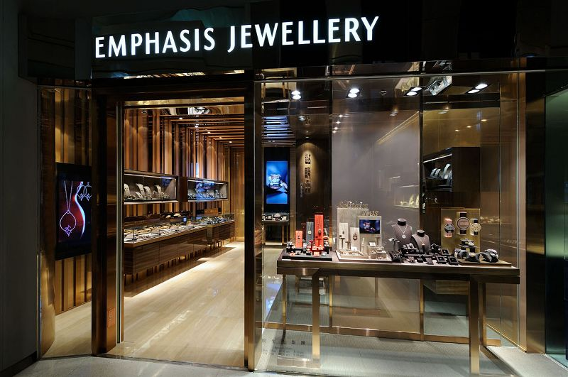 Member of Chow Sang Sang Group-"Emphasis Jewellery" store in Pacific Place, Admiralty, Hong Kong